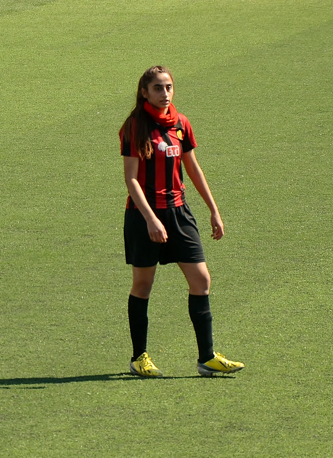 Kezban Tağ playing for Eskişehirspor (women) in the away match of the 2014-15 season against Ataşehir Belediyespor.